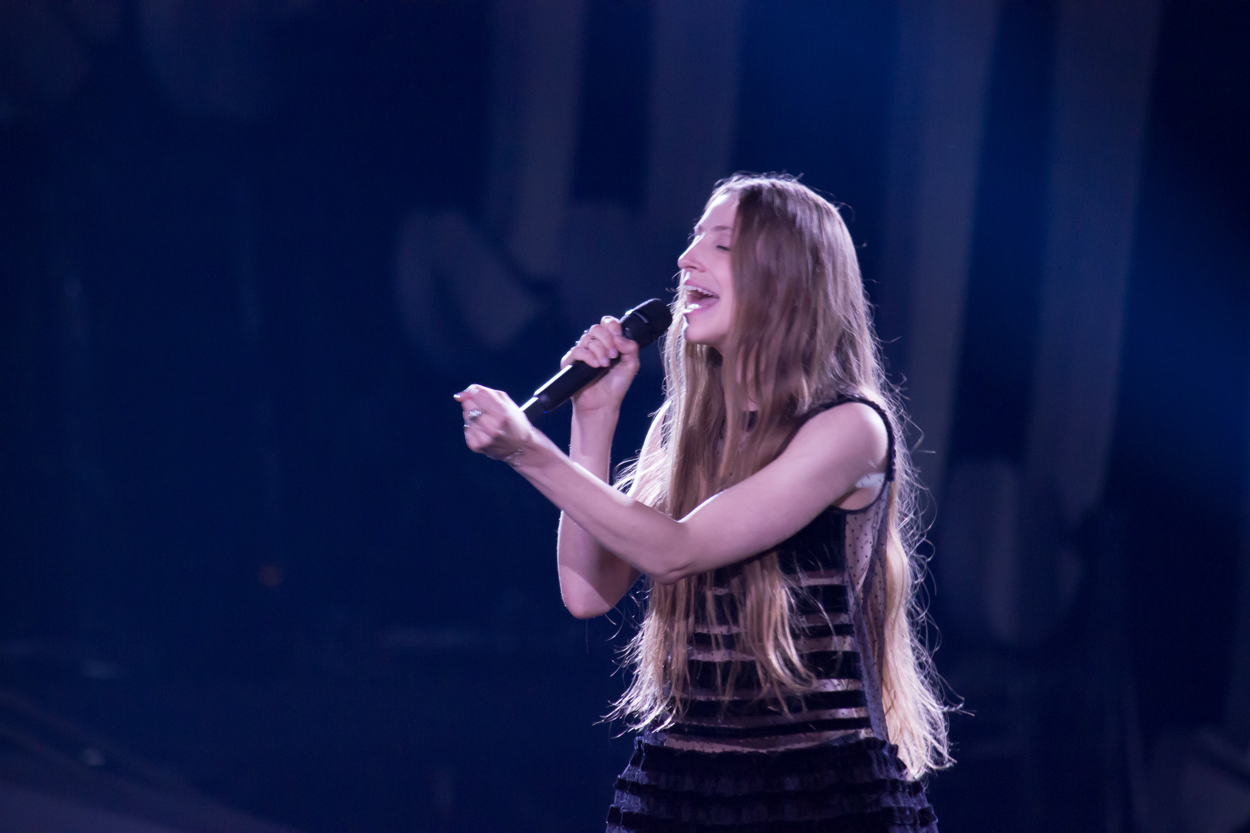 Sennek representing Belgium with the song "A Matter of Time" during a rehearsal before the first semi final of the Eurovision Song Contest 2018 in Lisbon.